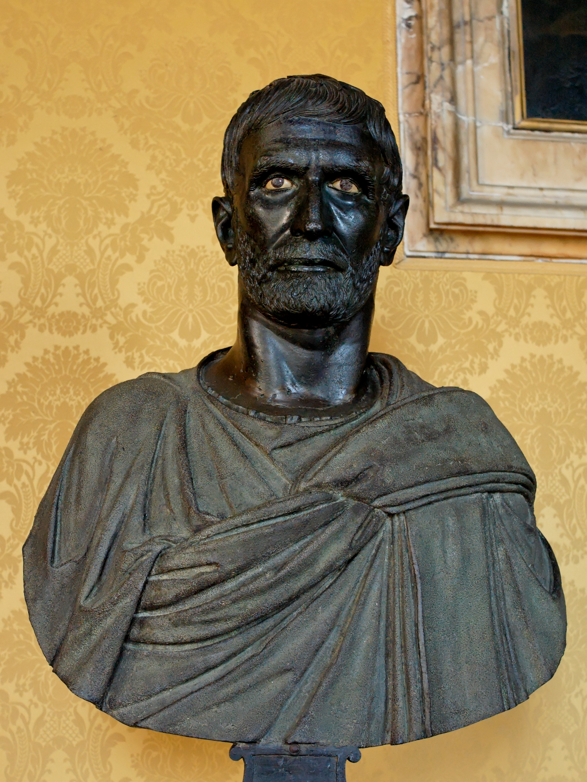 Roman artwork of the Republican Era, 4th-3rd centuries BC. The bust is a modern addition.